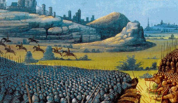 Detail of